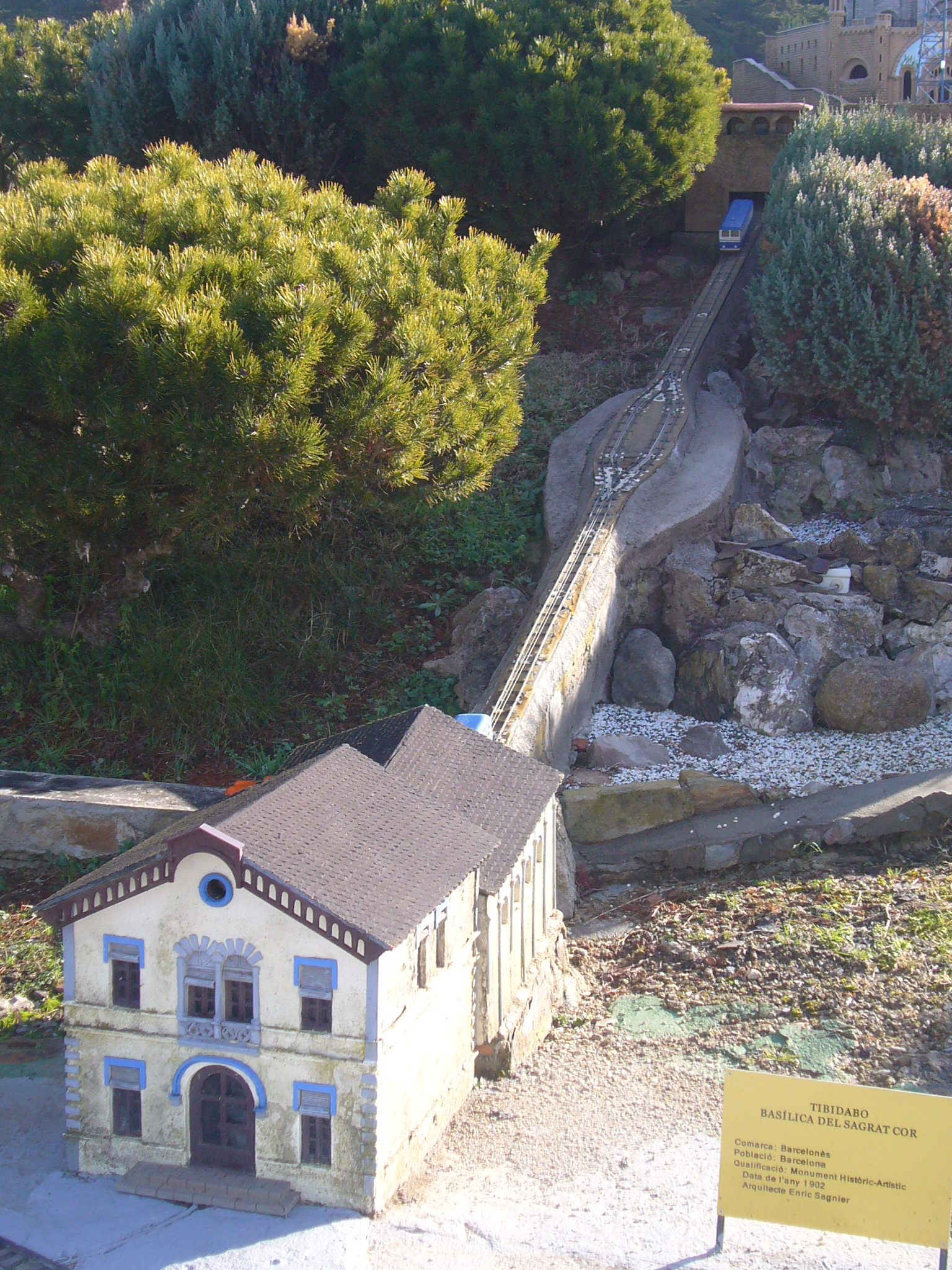 Scale model at the "Catalunya en Miniatura" miniature park : Funicular del Tibidabo